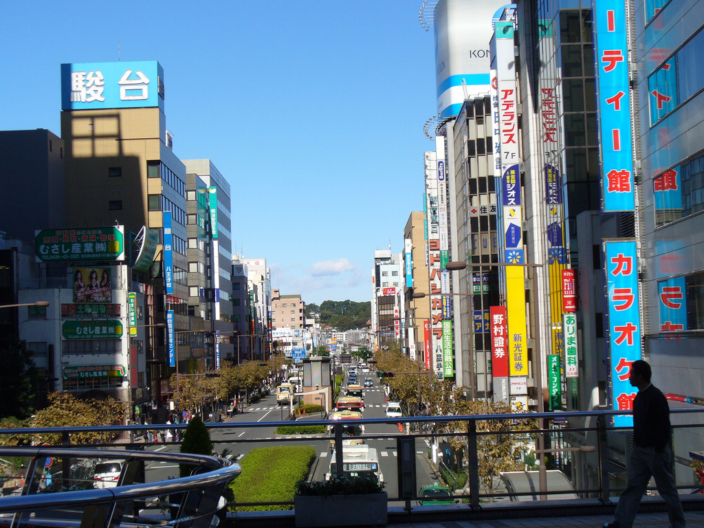 Station Road Of Hachioji Station.